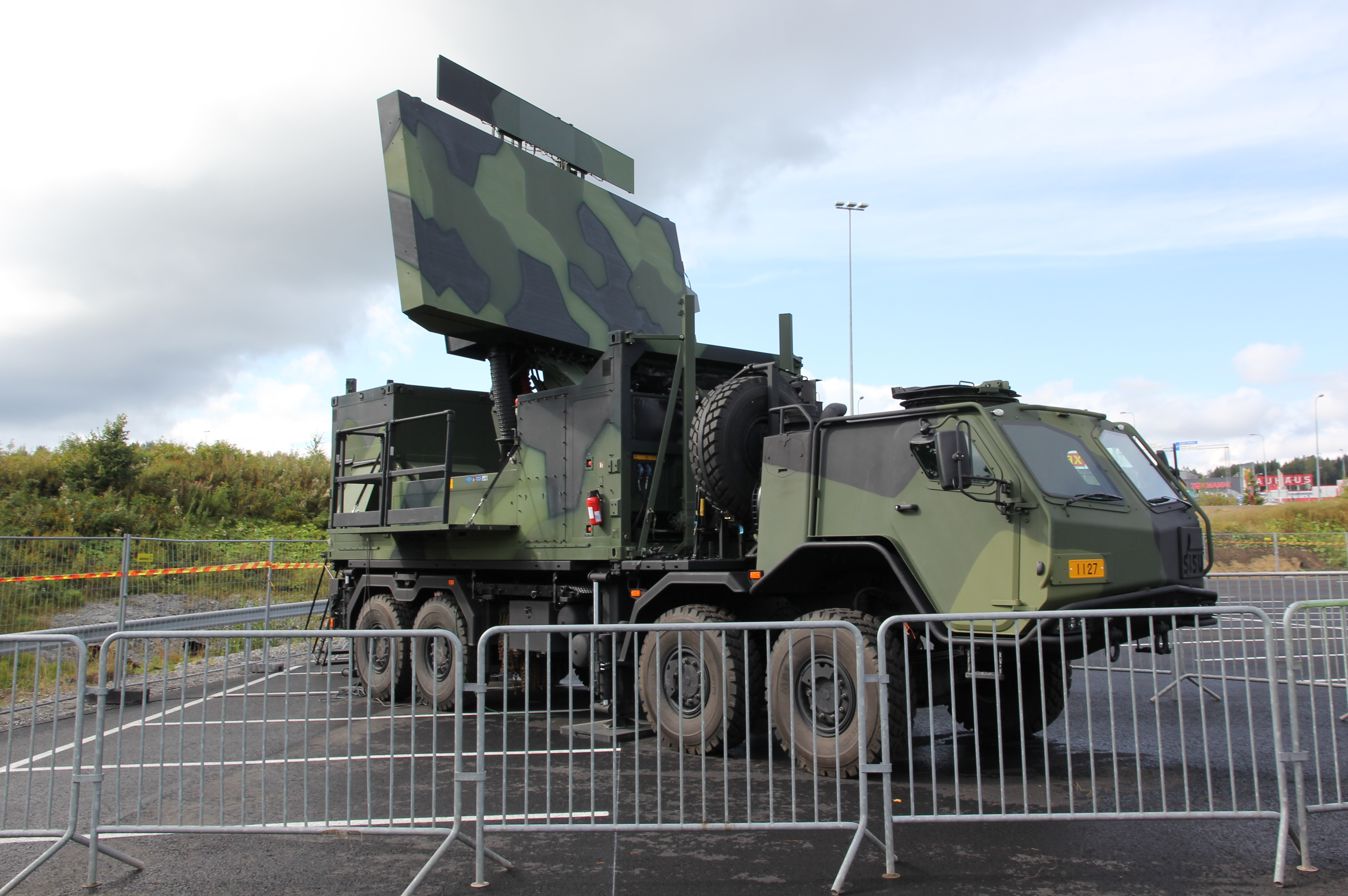 Ground Master 403 (KEVA2010) radar carried by Sisu E13TP on display at Comprehensive security exhibition 2015 in Tampere.